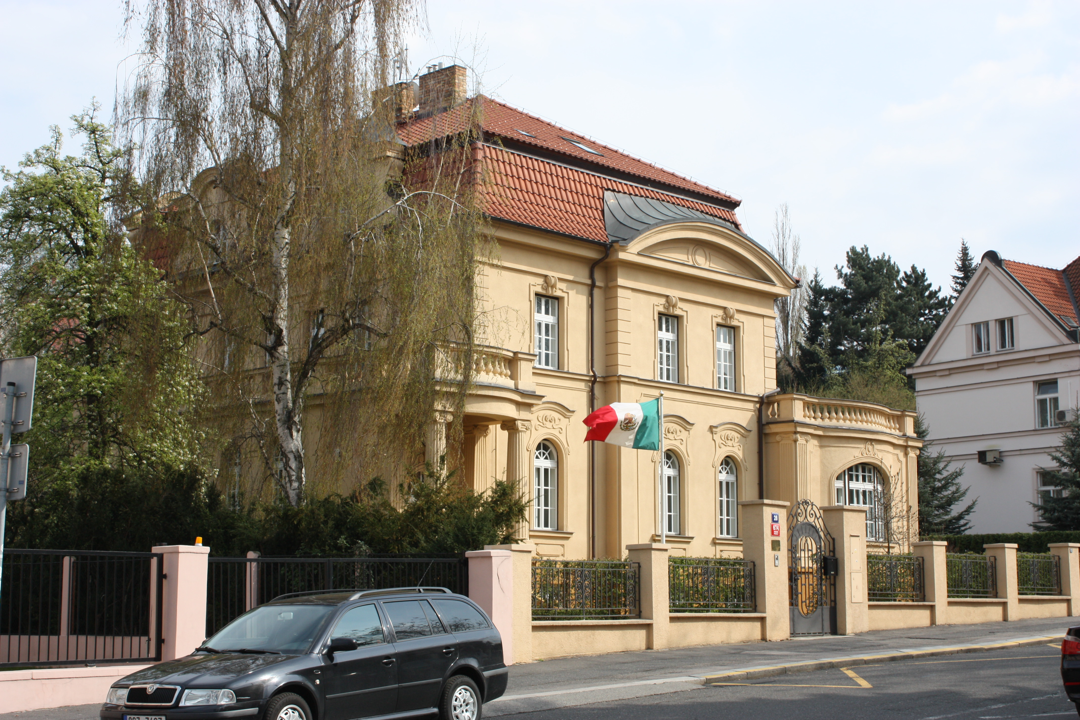 Residence of Mexican Embassy in Prague. Na Zátorce - 674/28, Prague 6 - Bubeneč.